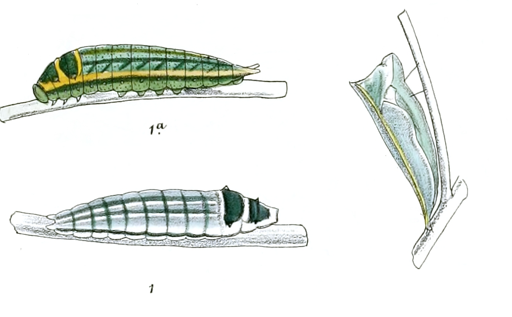 Graphium antiphates alcibiades (larva and pupa)